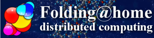 Folding@home banner logo, created by Joseph Coffland (Folding@home developer) 2012